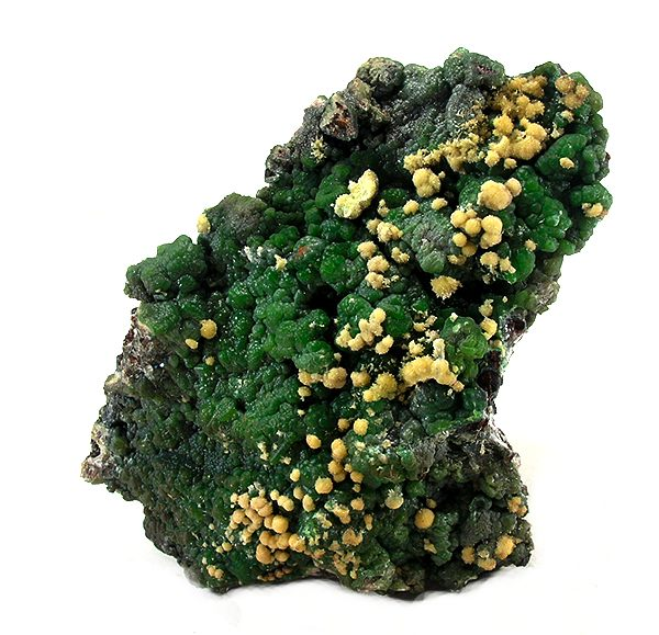 Arsendescloizite, Mimetite Locality: San Juan Mine, Mapimí, Municipio de Mapimí, Durango, Mexico (Locality at ) Size: cabinet, 12 x 8.5 x 4 cm Arsendescloizite with Mimetite This large, rich specimen is surely one of the very best examples of its species from the small find, of about ten flats brought to Tucson in 1989. They were mined in 1988, according to the MR issue on the Ojuela Mine. Some pieces were sprinkled lightly with mimetite (much of it white), but this one has extraordinarily rich coverage of yellow mimetite and thus good contrast that is lacking in the few others i have even seen for sale over the years. The specimen in the University of Arizona Mineral Museum, illustrated in that issue of the MR, is 17 cm compared to the 12 cm size here, but it lacks the aesthetics and contrast of this piece to my eye . In any case, most have long since disappeared into museums and collections. I have seen only two great pieces, including this one, for sale in the last decade. 12 x 8.5 x 4 cm